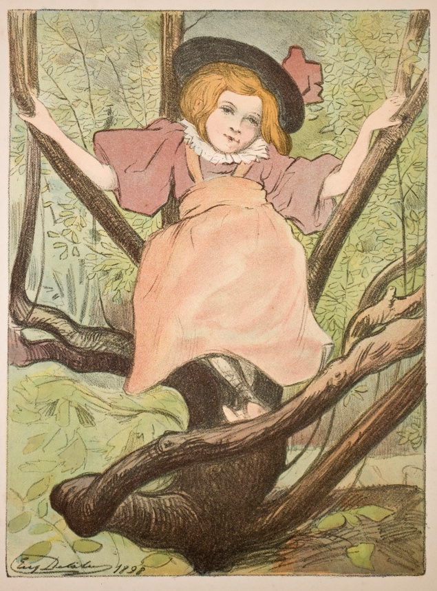 Kacia by Eugène Delâtre, lithographic print from L'Estampe moderne, vol. II, Paris, F. Champenois.